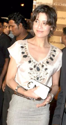 Shabana Raza (Neha Bajpai) at Premiere of Raajneeti